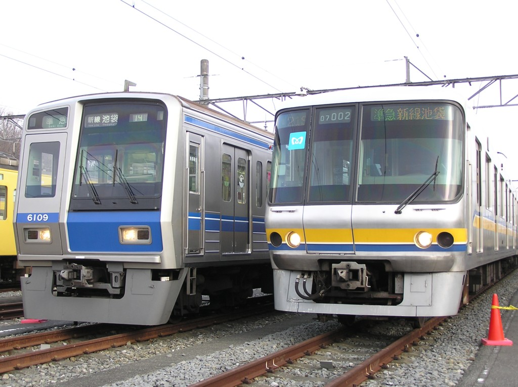 Seibu 6000 series EMU set 6109 and Tokyo Metro Yurakucho Line 07 series EMU set 02 at Kotesashi Depot open day